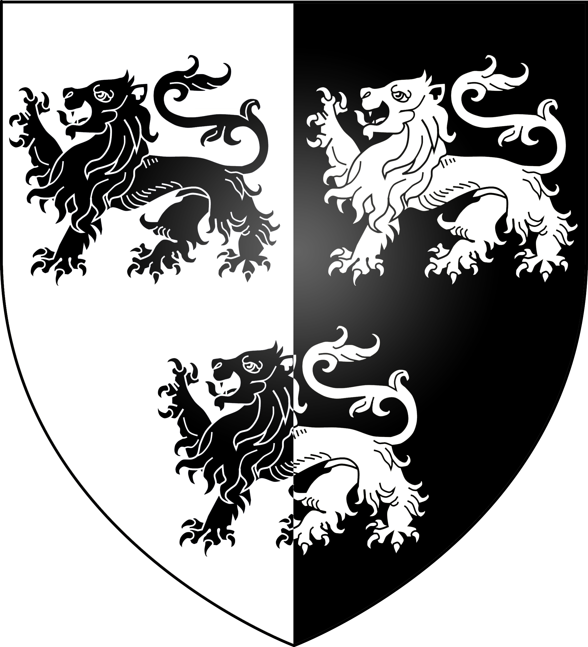 As described in The Visitation of London 1558: Per pale, Argent and Sable, three lions passant counterchanged. These arms were created for Sir Thomas Pullinson / Pullynson as Lord Mayor of London.